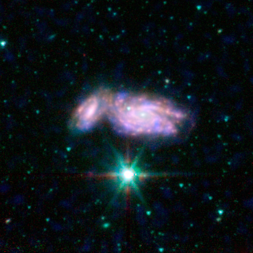 Arp 276 (consisting of the colliding galaxies NGC 935 and IC 1801). Picture is composed from 3 photos taken by Spitzer Space Telescope (red - mid IR, green - near IR) and GALEX (blue - far UV).